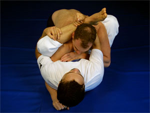 Eddie Bravo demonstrating his signature "rubber guard